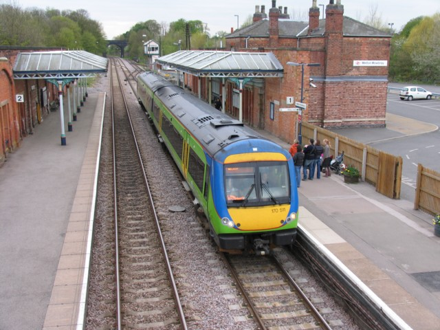 A Stansted Airport service operated by Central Trains at Melton Mowbray Station. The train at platform 1 is the 18:35 Central Trains service to Stansted Airport, calling at Oakham, Stamford, Peterborough, March, Ely, Cambridge, Audley End and Stansted Airport, currently running about 15 minutes late due to a points failure just the other side of the bridge in the background.